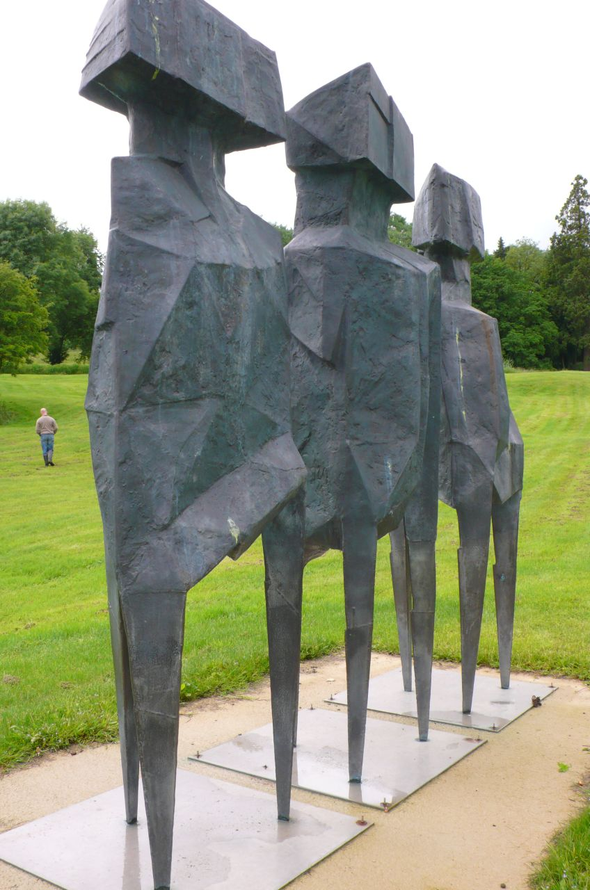 3 Figures by Lynn Chadwick at Lypiatt Park in Stroud, Gloucestershire/UK